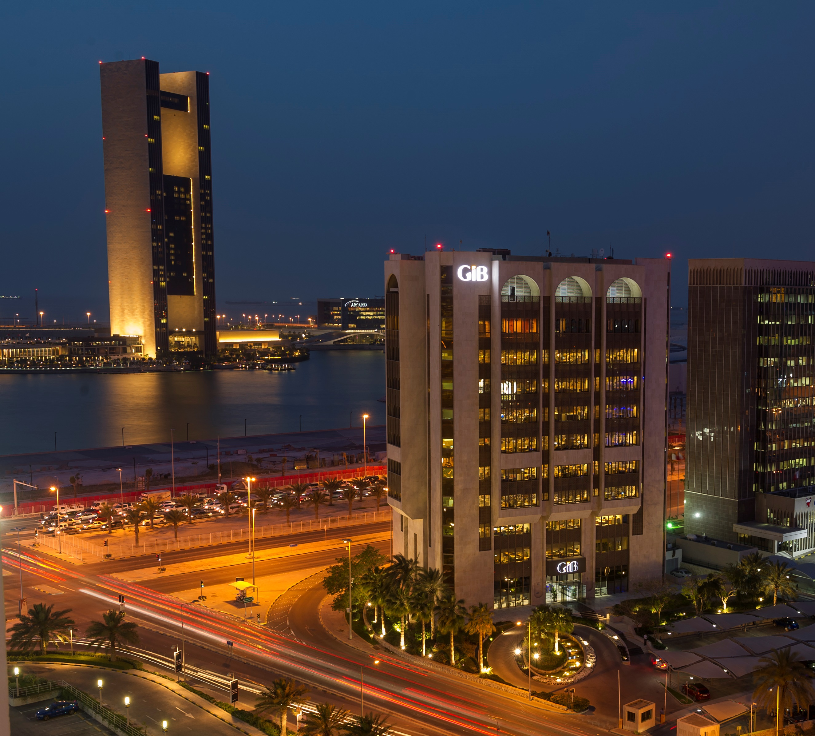 Gib headquarter building